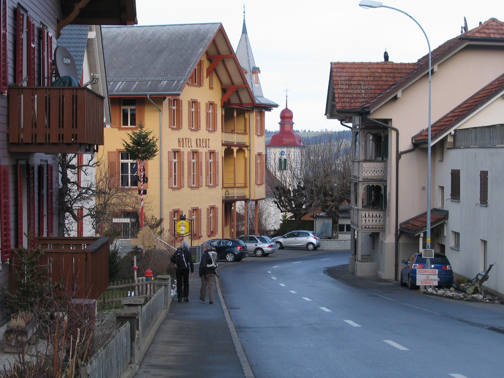 Romoos (village) in the district of Entlebuch in the canton of Lucerne in Switzerland.